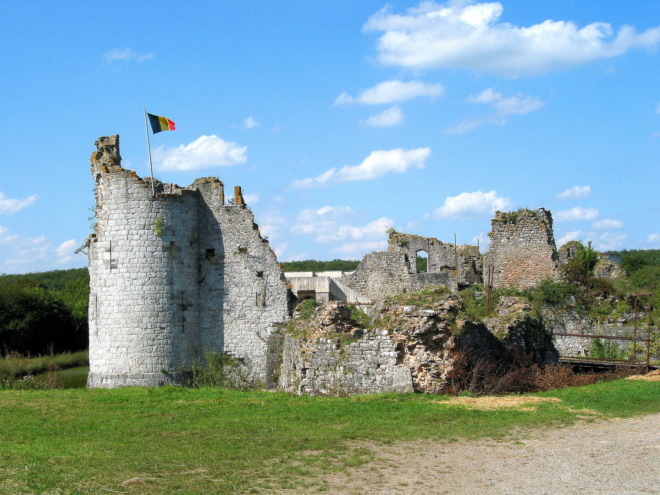 Fagnolle (Belgium), ruines of the old feudal castle of Fagnolles (XIIth century).